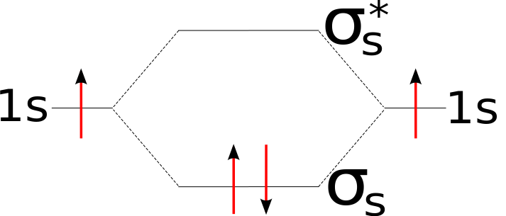 Schematic represantation of bonding and antibonding molecular orbitals.